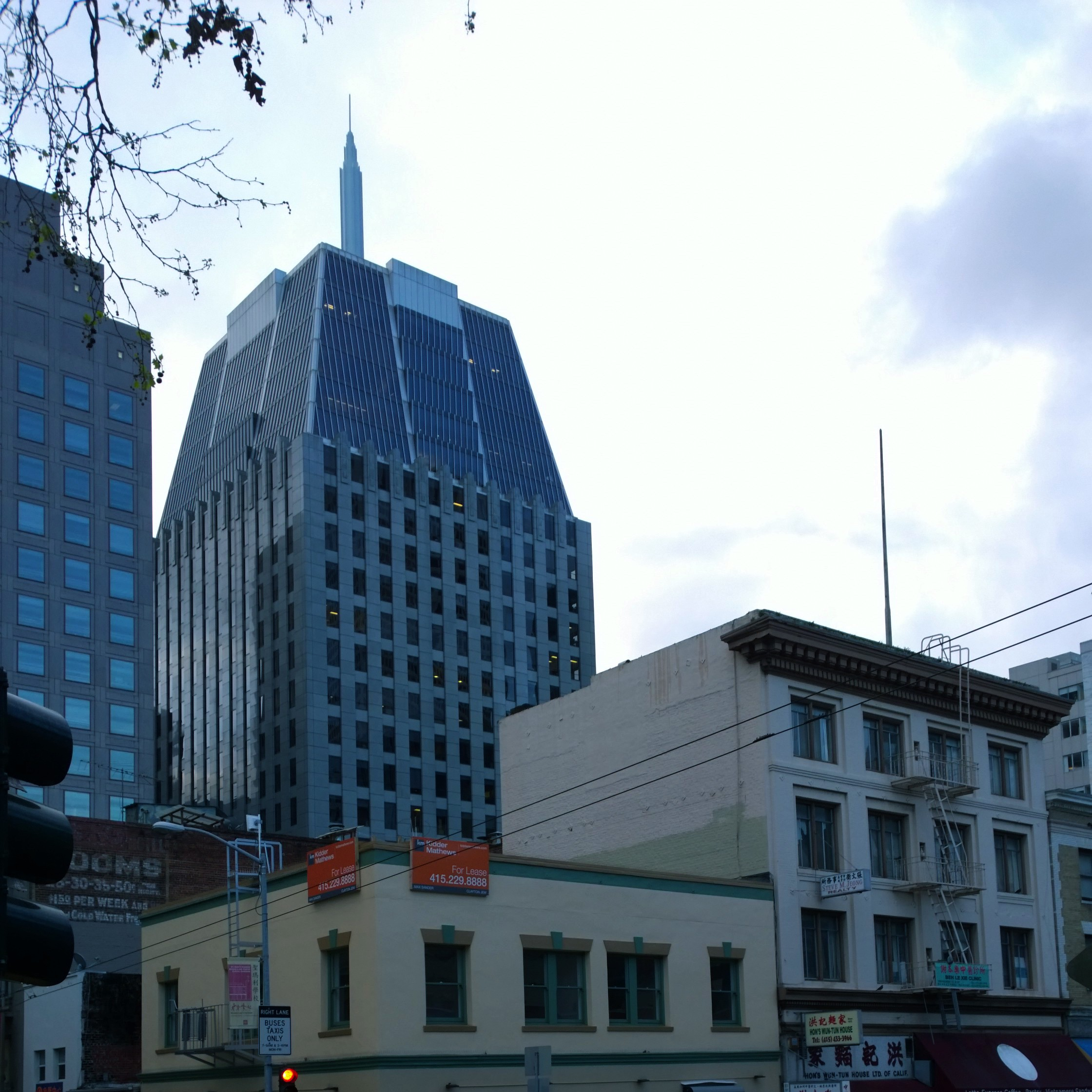 505 Montgomery The spire is a replica of the Empire State Building.